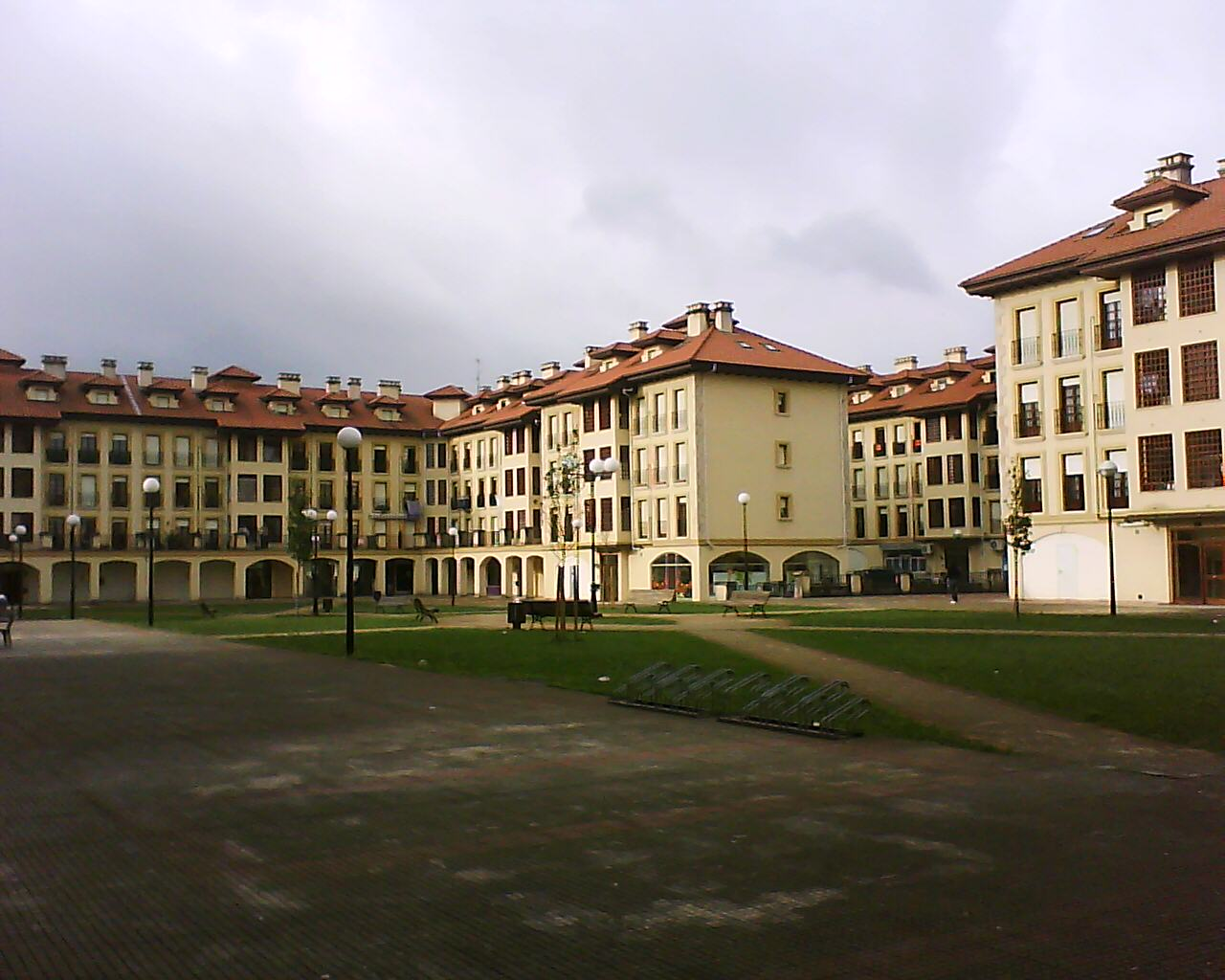 San Lazaro Development, on Saron , Saint Mary Cayon, Cantabria, Spain